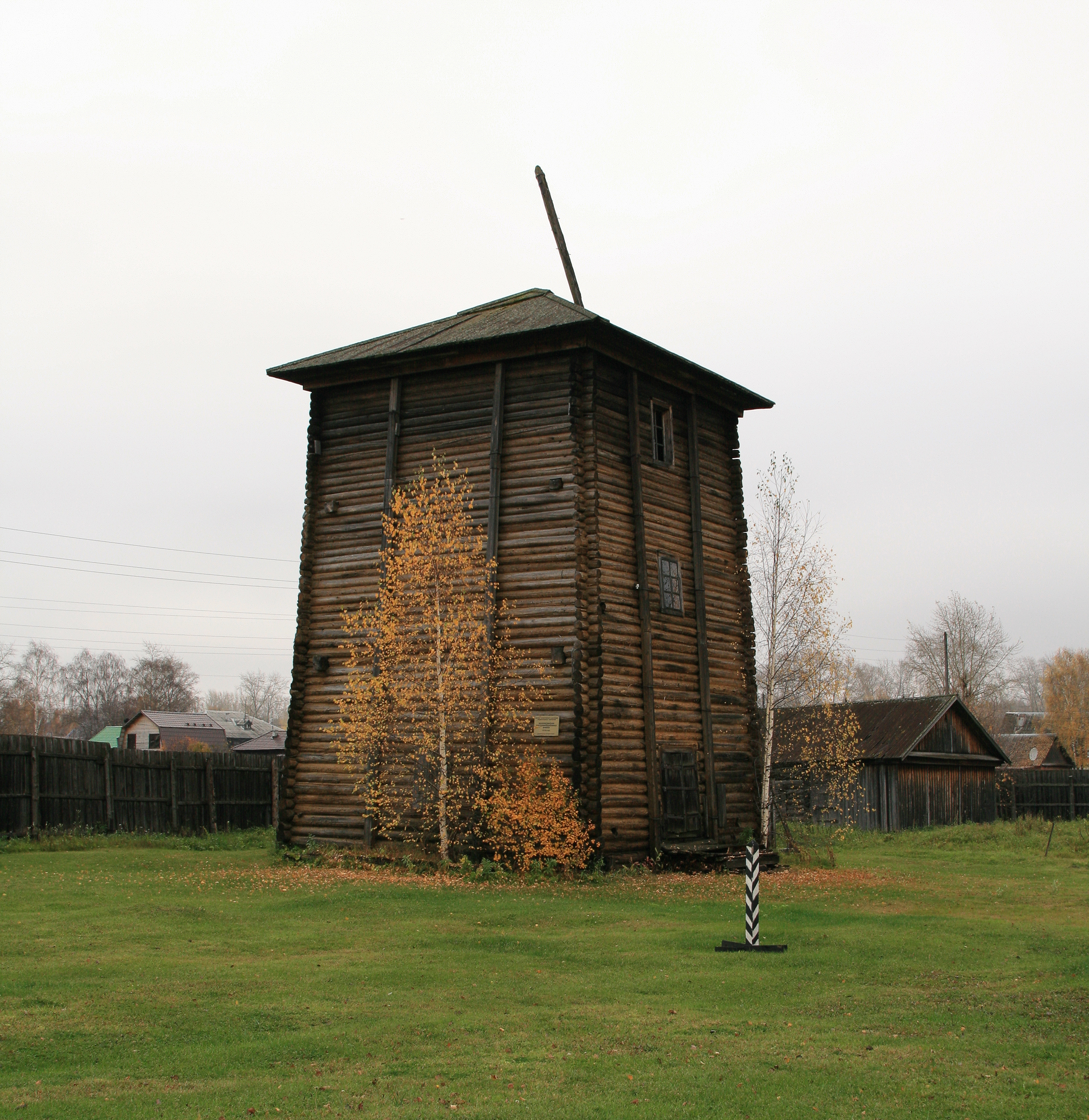 Ust-Borovaya Saltworks, Resurection Tower, Solikamsk, Perm Krai